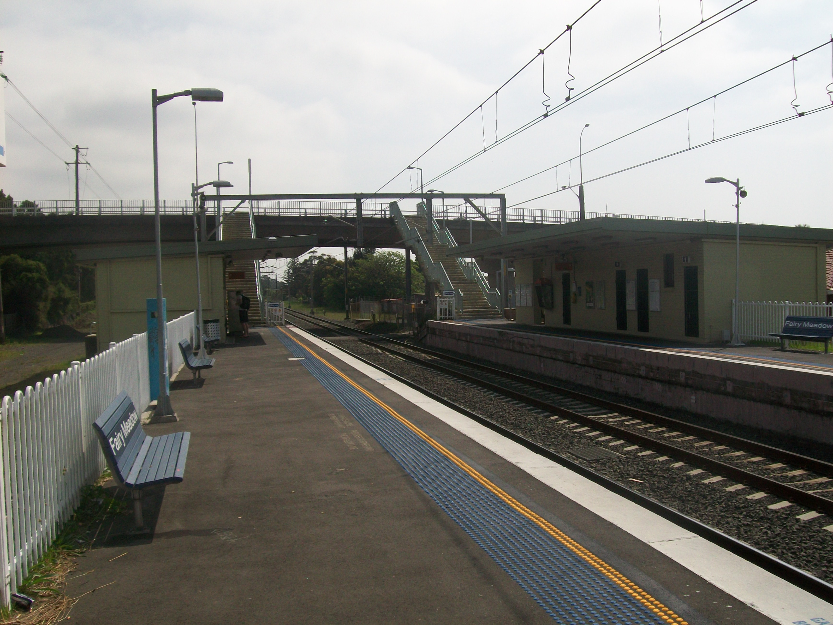 Fairy Meadow Railway station